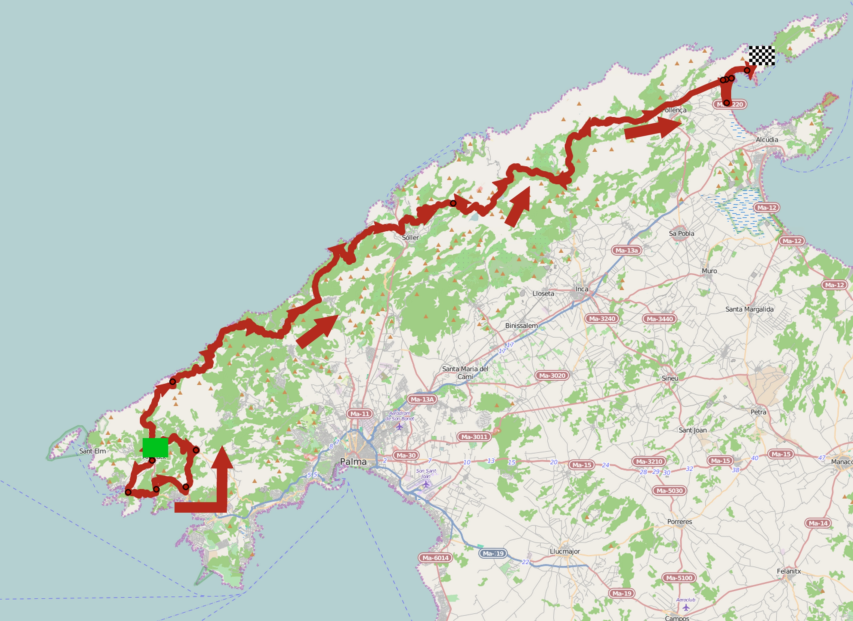 Parcours du Trofeo Andratx du Challenge de Majorque 2015. This map may be incomplete, and may contain errors. Don't rely solely on it for navigation.